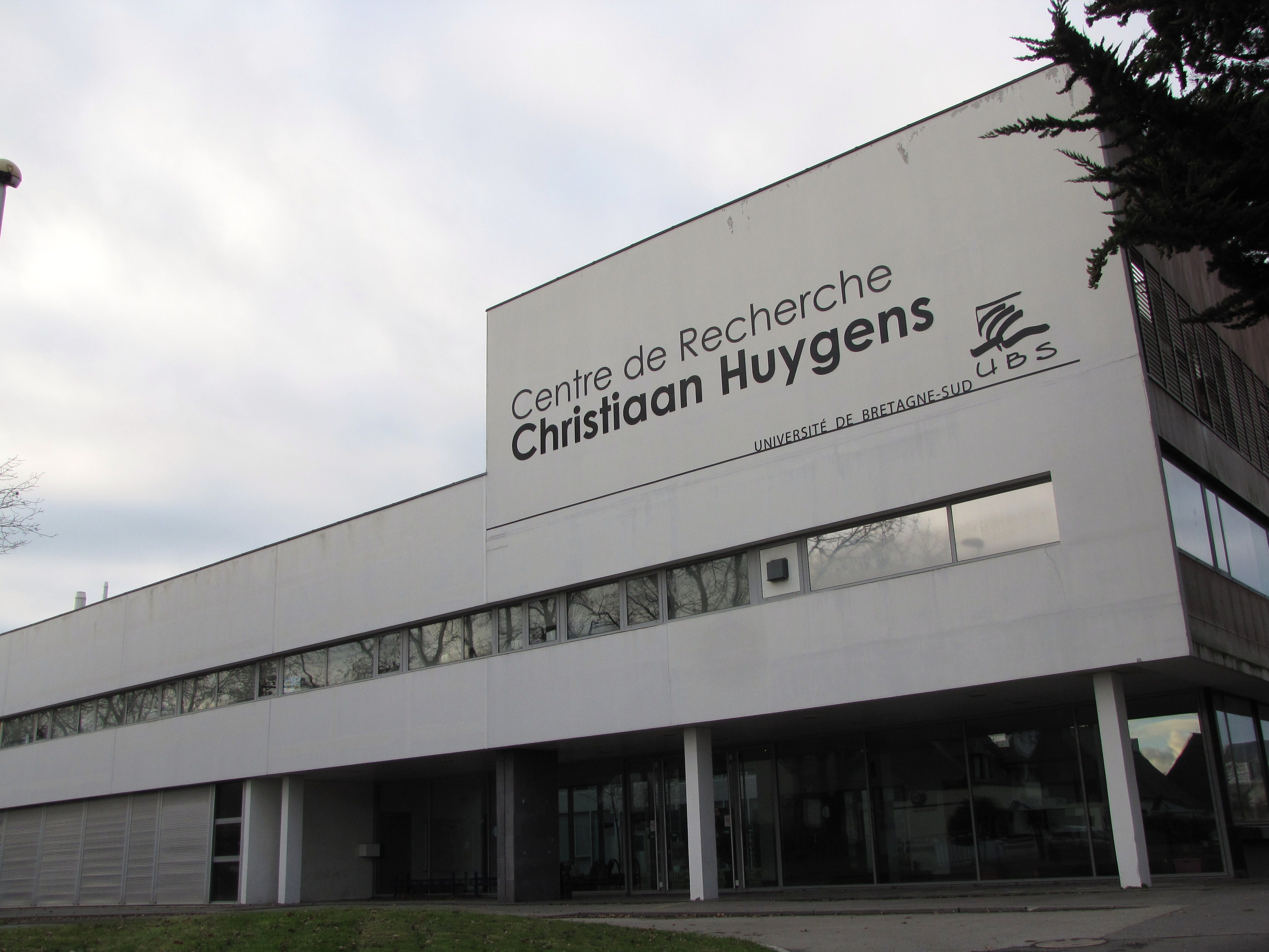 "Christiaan Huygens" research building, University of Southern Brittany, Lorient, France.